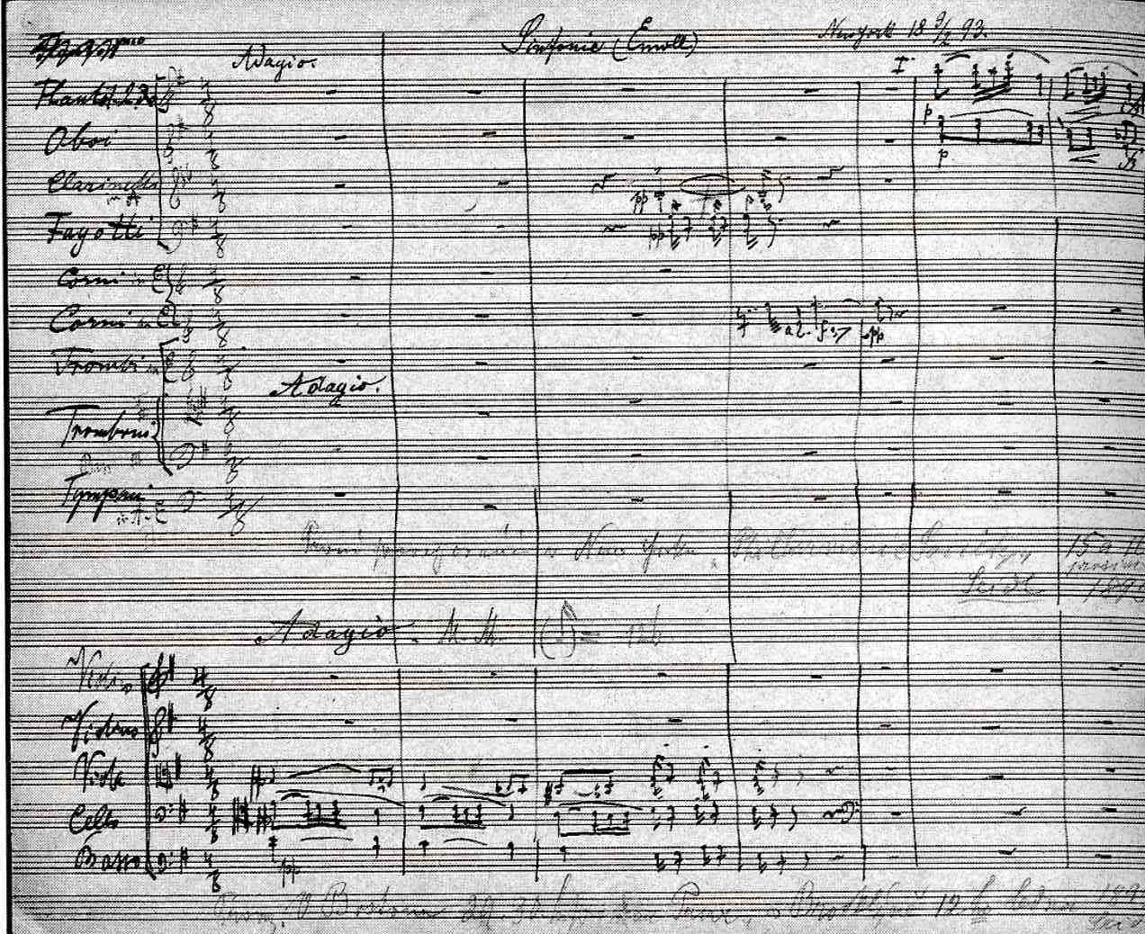 The first page of the autograph score of Dvořák's ninth symphony